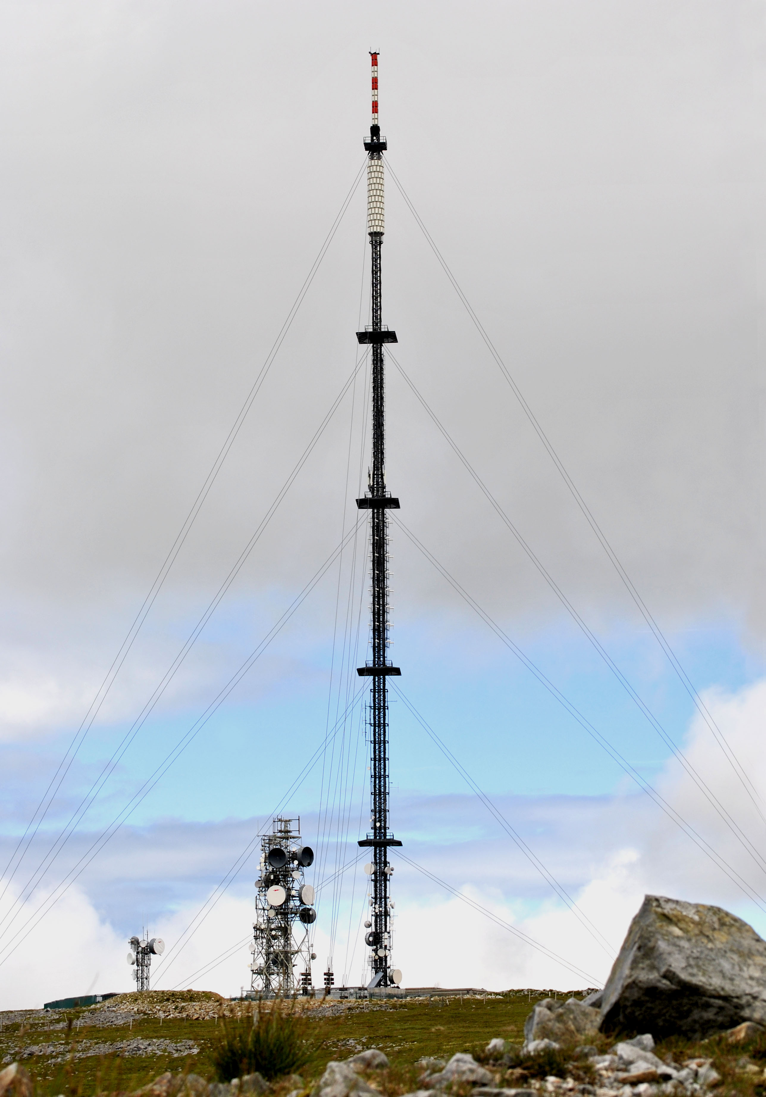 Transmission site Truskmore from approach road.